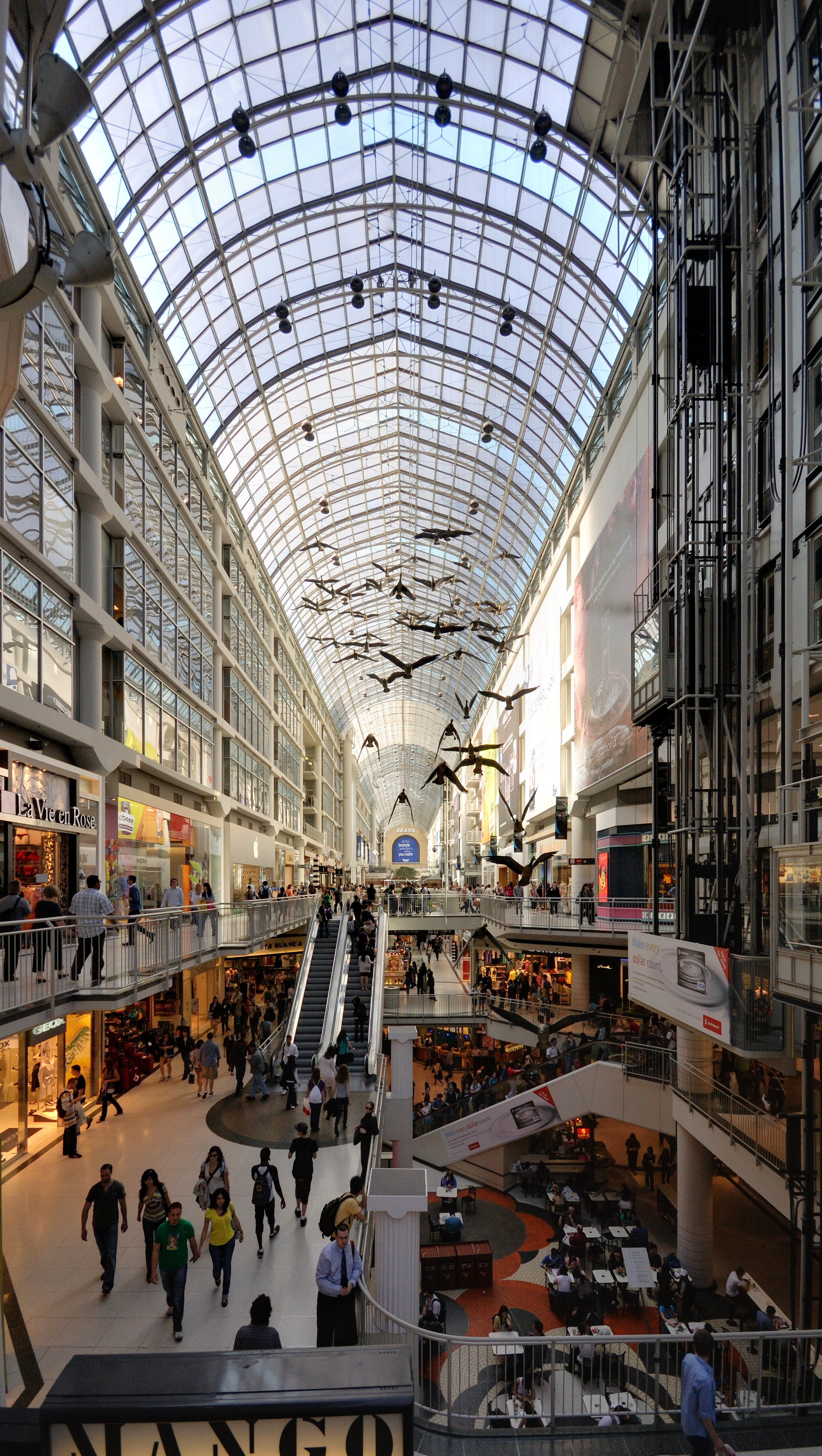 Inside Eaton Centre, Toronto